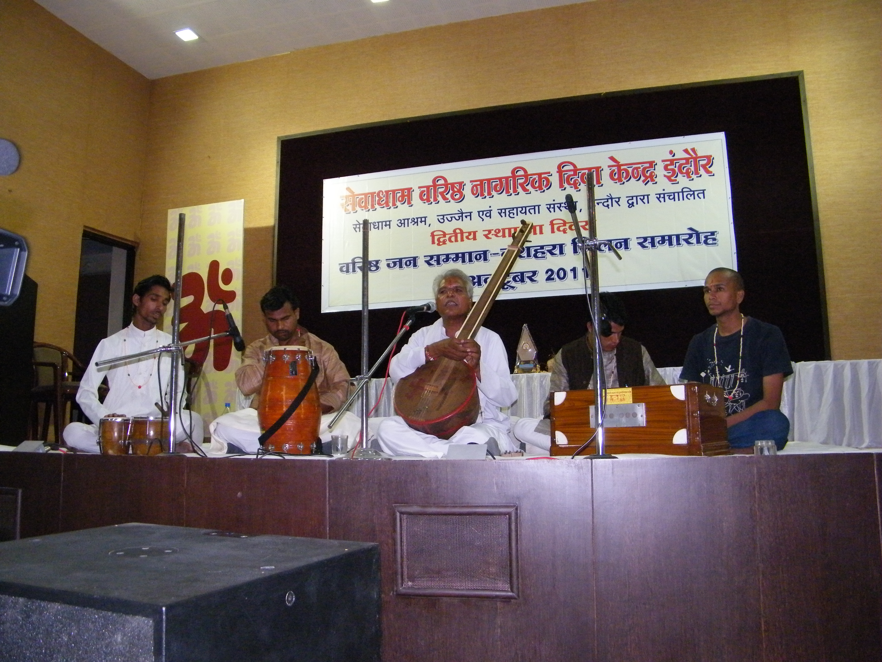 Padma Shri winner Prahlad S Tipaniya performing in a function in Indore